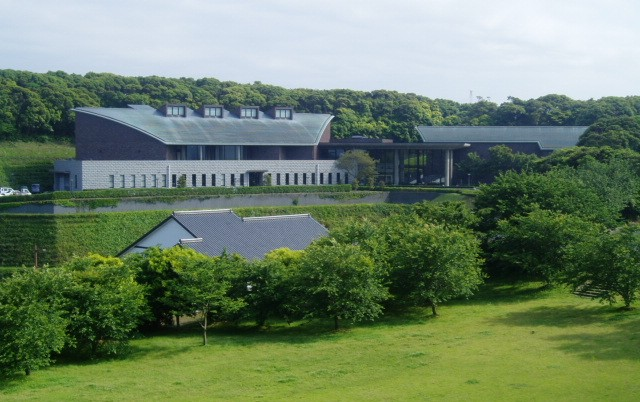 NagoyaC Museum photo by Aboshi